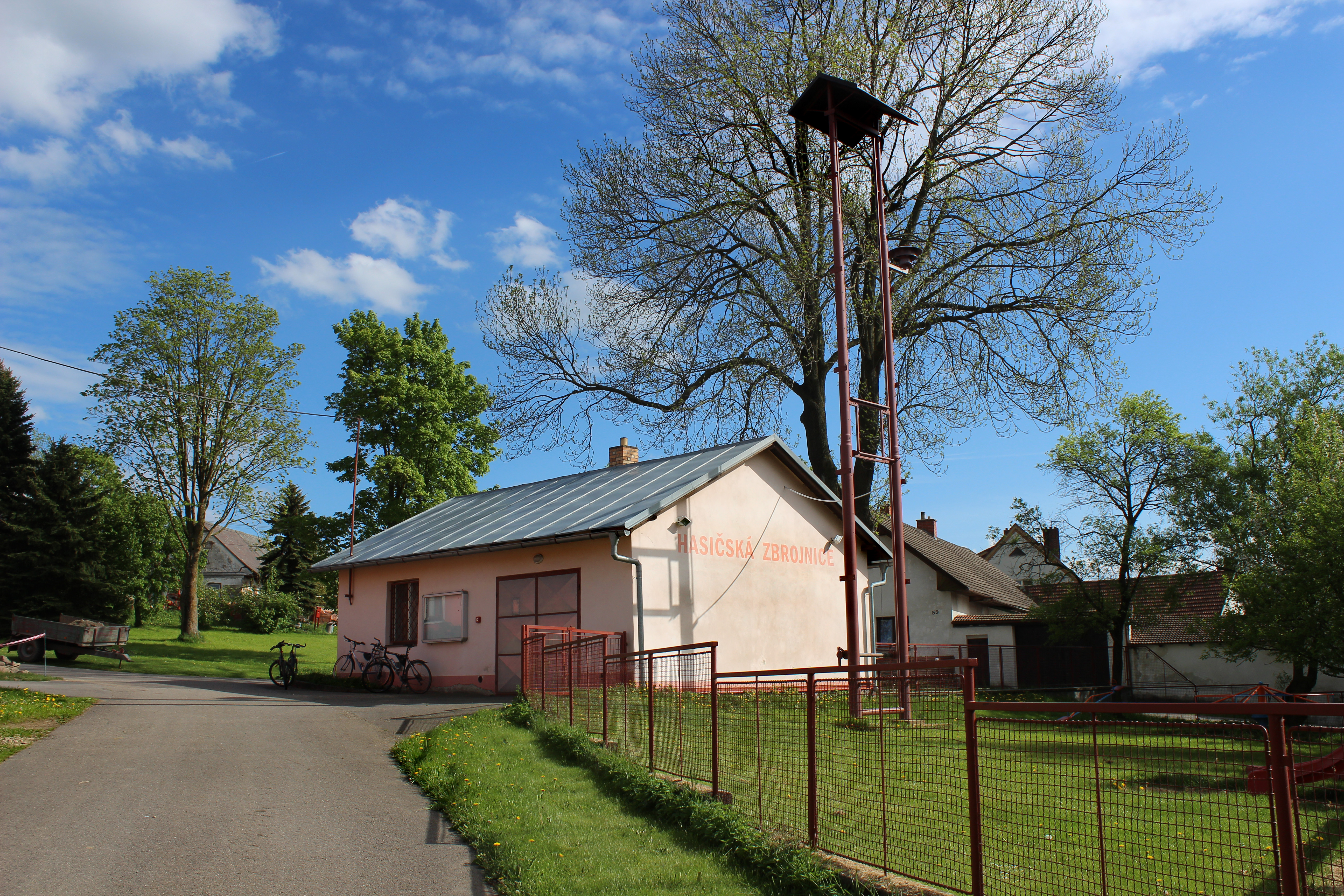 Fire house in Sirákov, Czech Republic